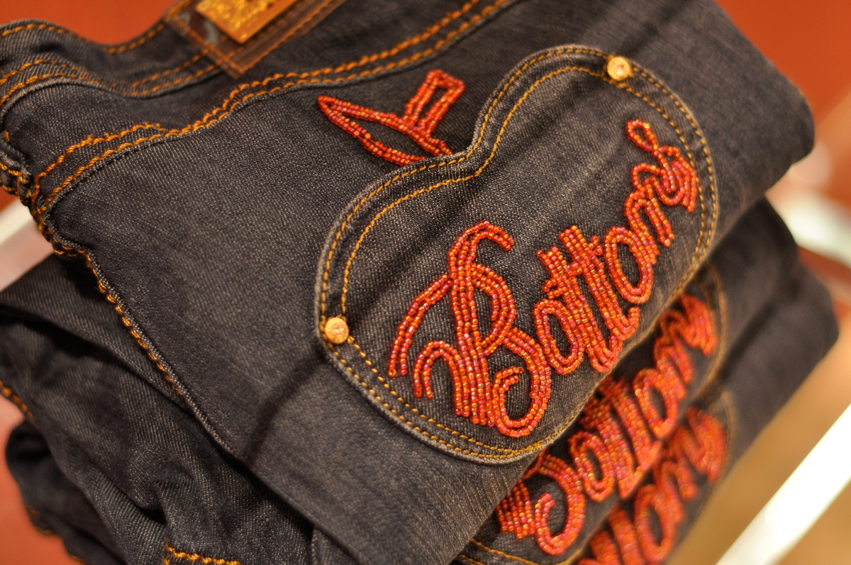 Apple bottom jeans, boots with the fur... Nelly's clothing range.